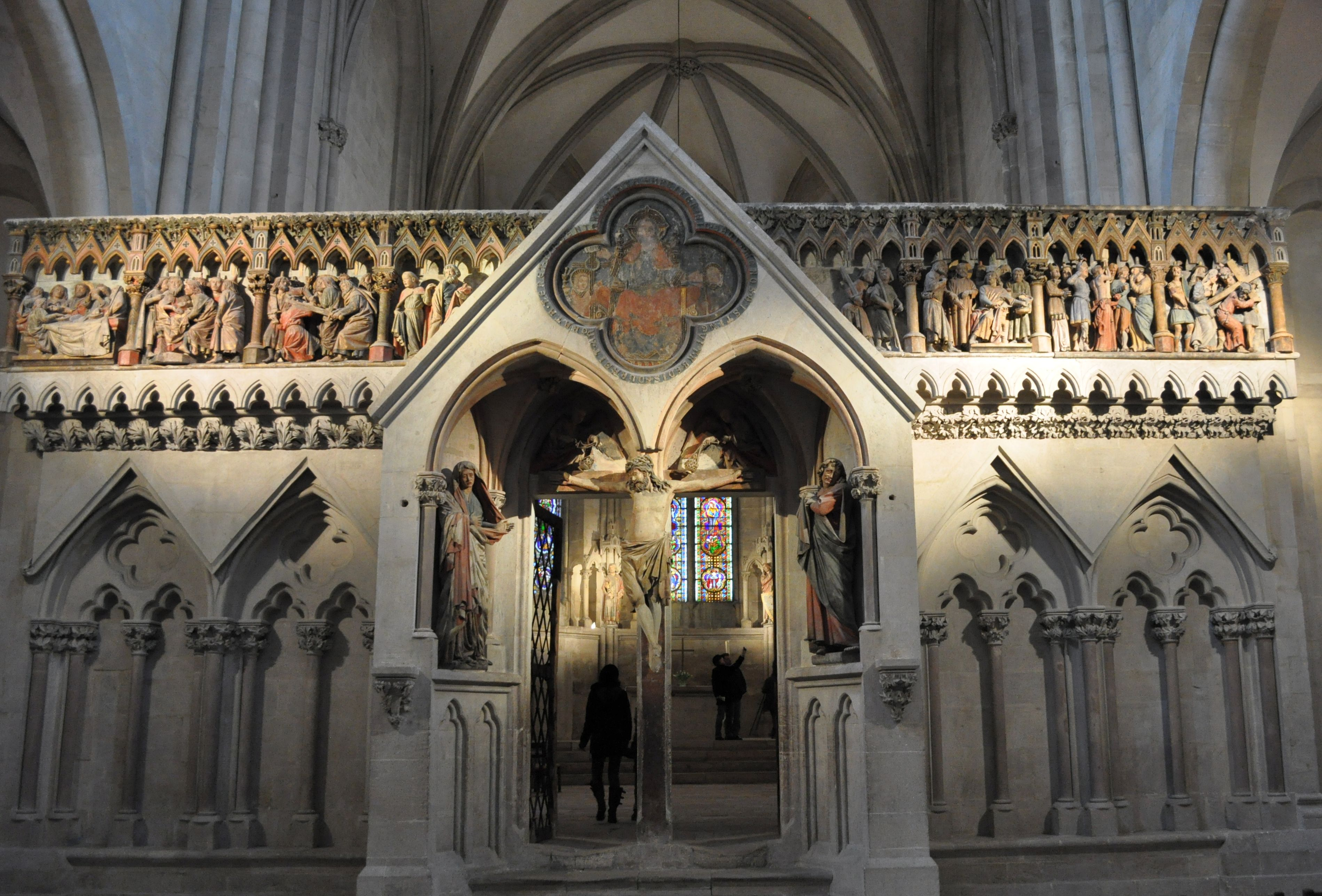 West Choir Screen of the Naumburg Cathedral